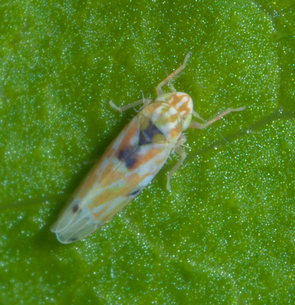 Erythroneura octonotata, Family: Leafhoppers, Size: 2.4 mm, ID Confidence: 98